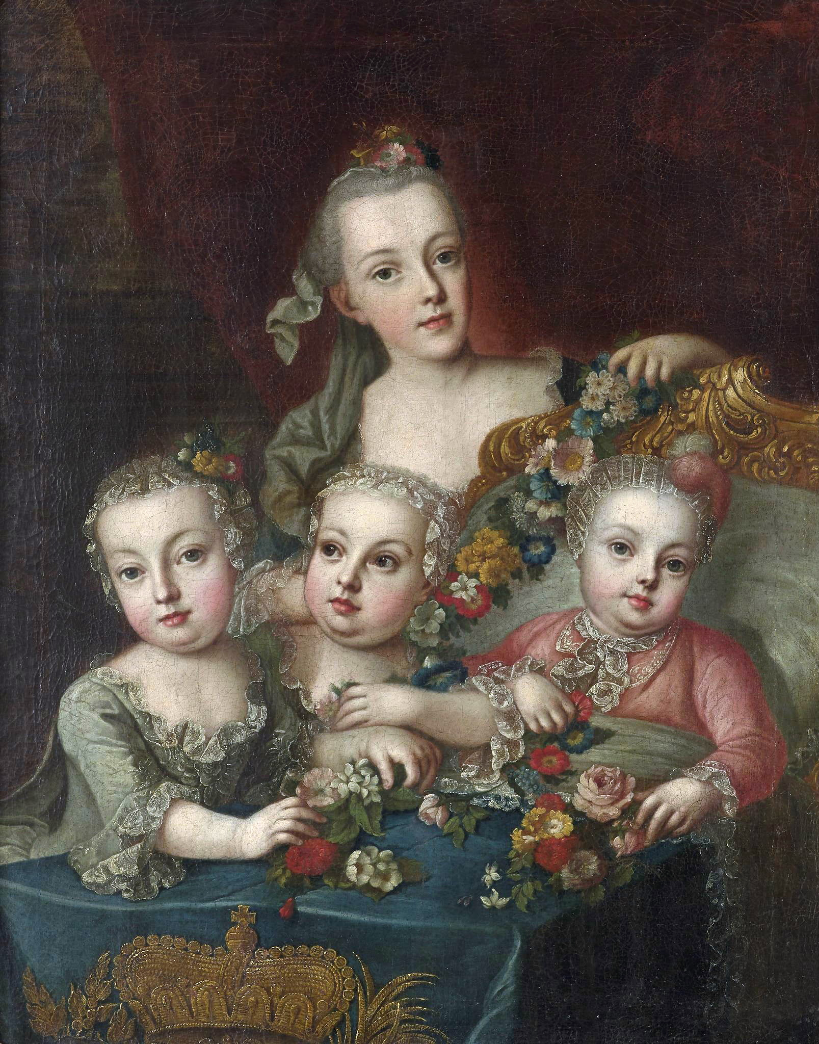 Empress Maria Theresia's children (Maria Josepha (1751-1767), Maria Carolina (1752-1814), Marie Antoinette (1755-1793) and Maximilian (1756-1801)